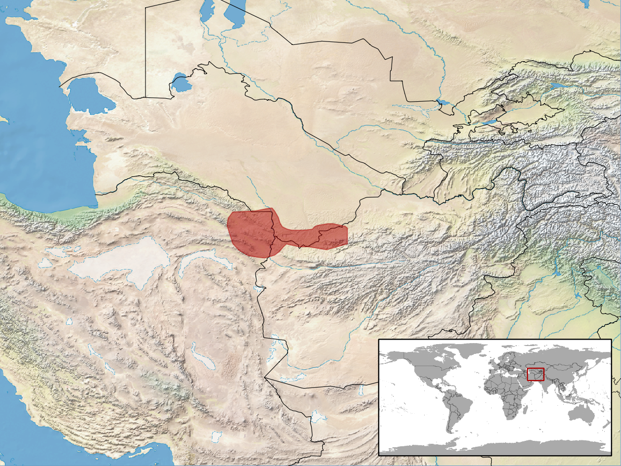 geographic distribution of Laudakia erythrogastra syn Laudakia erythrogaster (Native: Afghanistan; Iran, Islamic Republic of; Turkmenistan)